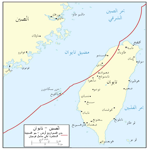 Figure 7. Surface-to-Air Missile Coverage over the Taiwan Strait. Note: This map depicts notional coverage provided by China’s SA-10, SA-20 SAM systems, as well as the soon-to-be acquired S-300PMU2. Actual coverage would be non-contiguous and dependent upon precise deployment sites.